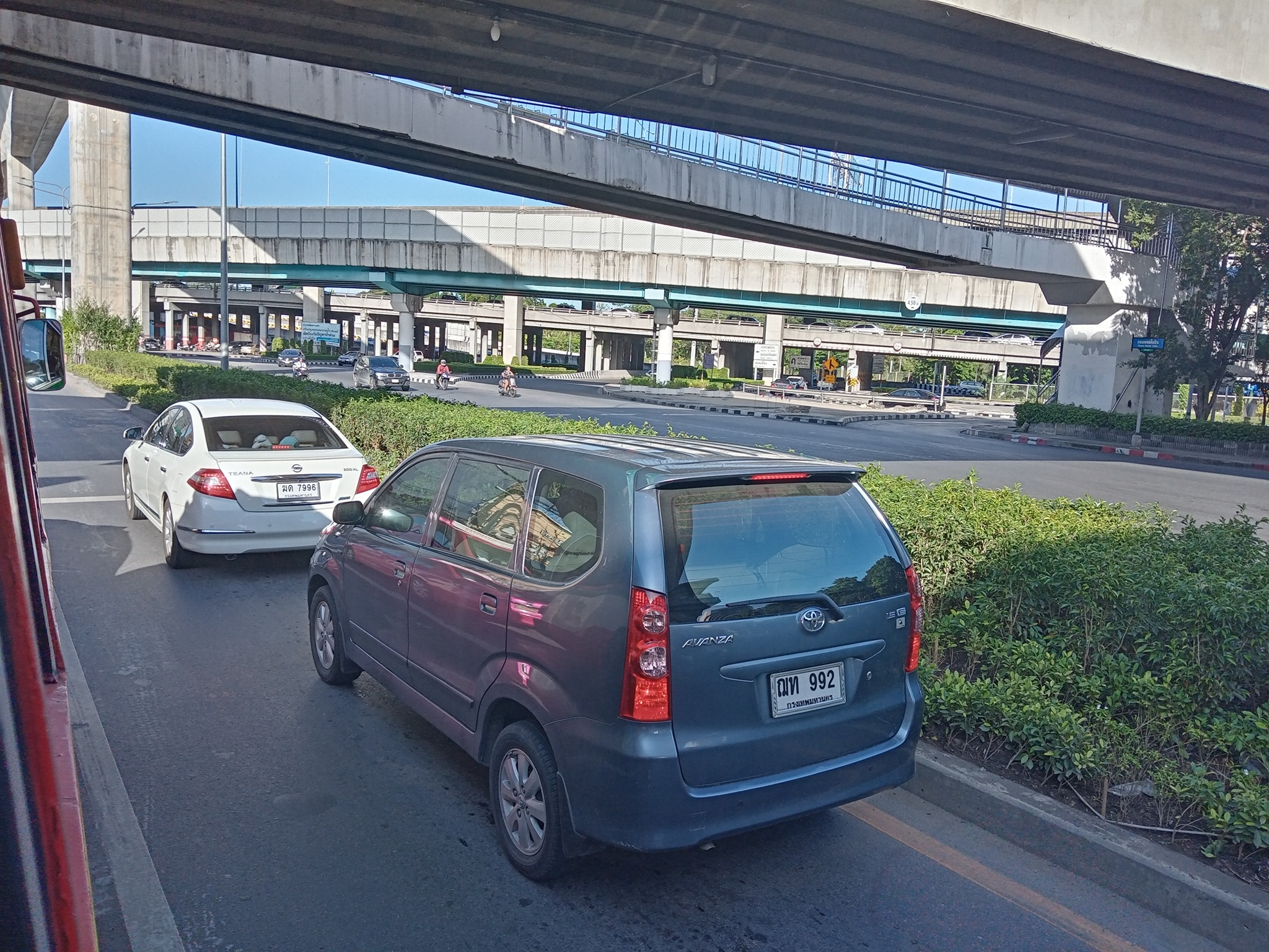 Lat Phrao Square. BKK.